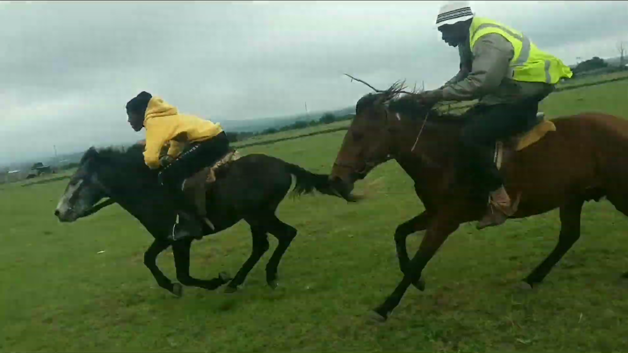 Two men in Kenya's Nyeri County ride horses as a means of transport to traverse the mountainous terrain of Mount Kenya. The jockey on the left is named MaxBrian Mugo, nicknamed Fearless Brayo due to his courageous outlook on life. On the right is Joseph Muriithi Ritho. 'Muriithi' means shepherd while 'Ritho' means eye in Gikuyu, their native language. He hopes to lead his country to greener pastures in the future. The dark coat stallion on the left is named Dawn to reiterate his colour, while the brown coat mare to the right is named Farasi, which is Swahili for horse. She is the most obedient horse in the string of horses owned by the Rithos. Kiswahili: Wakenya wawili wanaume katika jimbo la Nyeri, nchini Kenya waendesha farasi kama njia ya kusafiri kupitia milima na mabonde ya Mlima Kenya. Mwendeshaji aliye kushoto anaitwa MaxBrian Mugo, na jina lake la utani ni Jasiri Brayo kwani huwa mwenye ujasiri tele. Kwenye upande wa kulia ni Joseph Muriithi Ritho. 'Muriithi' inamaanisha mchungaji wa mifugo nayo 'Ritho' inamaanisha 'jicho' katika lugha yao asili Kikuyu. Muriithi ana ndoto ya kuiongoza nchi yake na kuipeleka katika nyasi yenye ujani mbichi zaidi yaani kutimiza miundo misingi mingi. Farasi ndume mweusi aliye kushoto anaitwa Alfajiri Kuu kwani rangi yake ni kama giza inayokuwepo kabla ya siku kukucha, kike hudhurungi aliye kulia anaitwa Farasi iliyo na maana hiyo hiyo katika Kiswahili. Yeye ndiye mtiifu zaidi kwenye uzi wa farasi wanaomilikiwa na familia ya Ritho. This is an image with the theme "Africa on the Move or Transport" from: Kenya